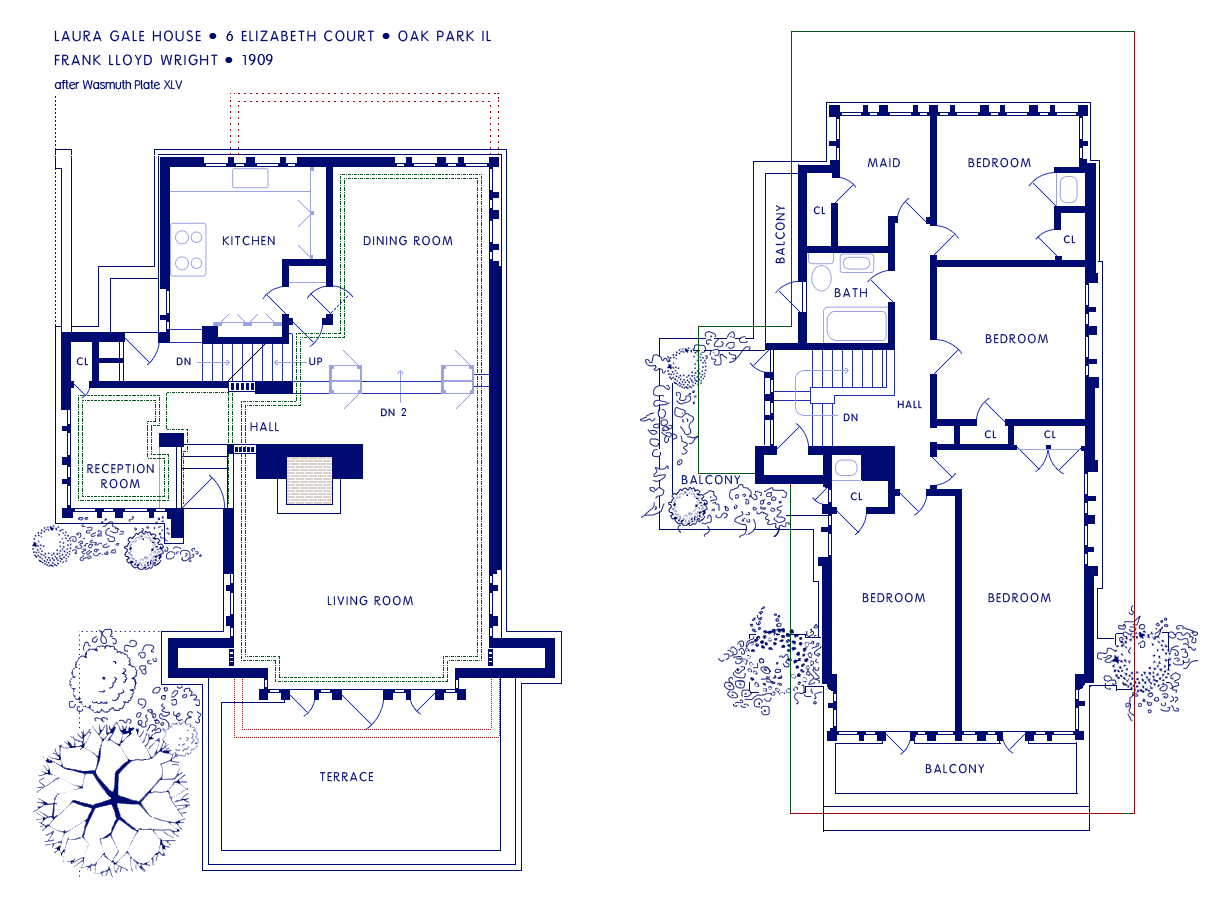 Plan for the Laura Gale House, 6 Elizabeth Court, Oak Park IL. Designed by Frank Lloyd Wright in 1909. After Wasmuth Plate XLV.